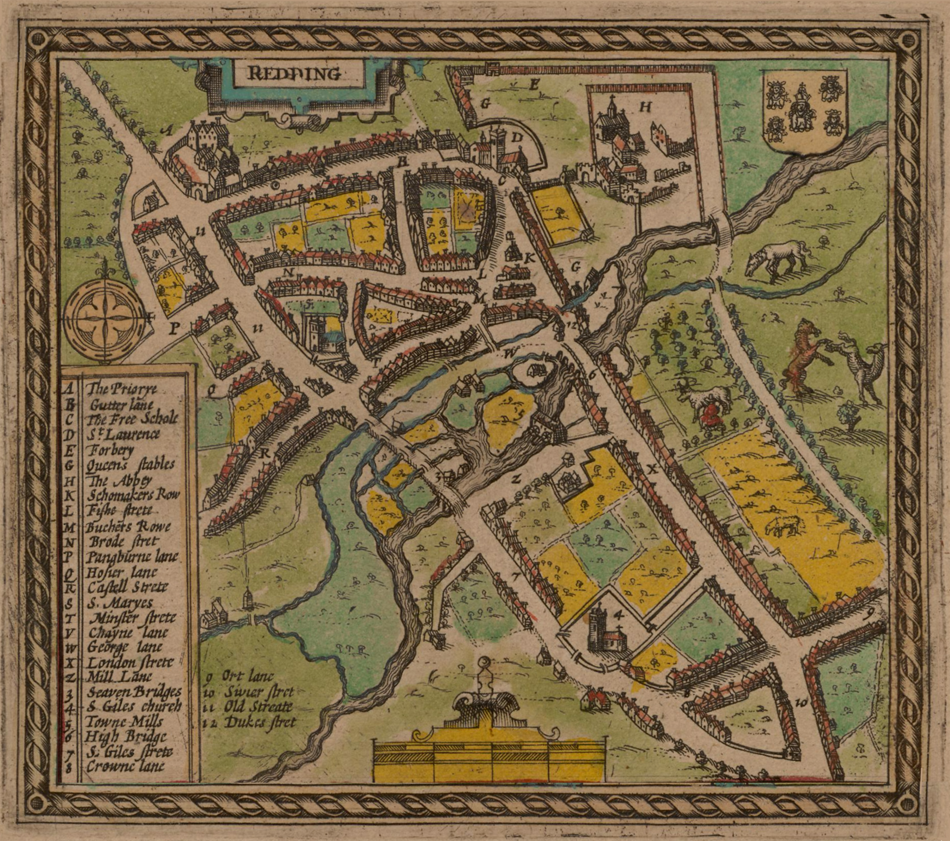 Upper-right detail from the map of Buckingham, showing the earliest map of Reading, published in John Speed's atlas of Great Britain, 1611.